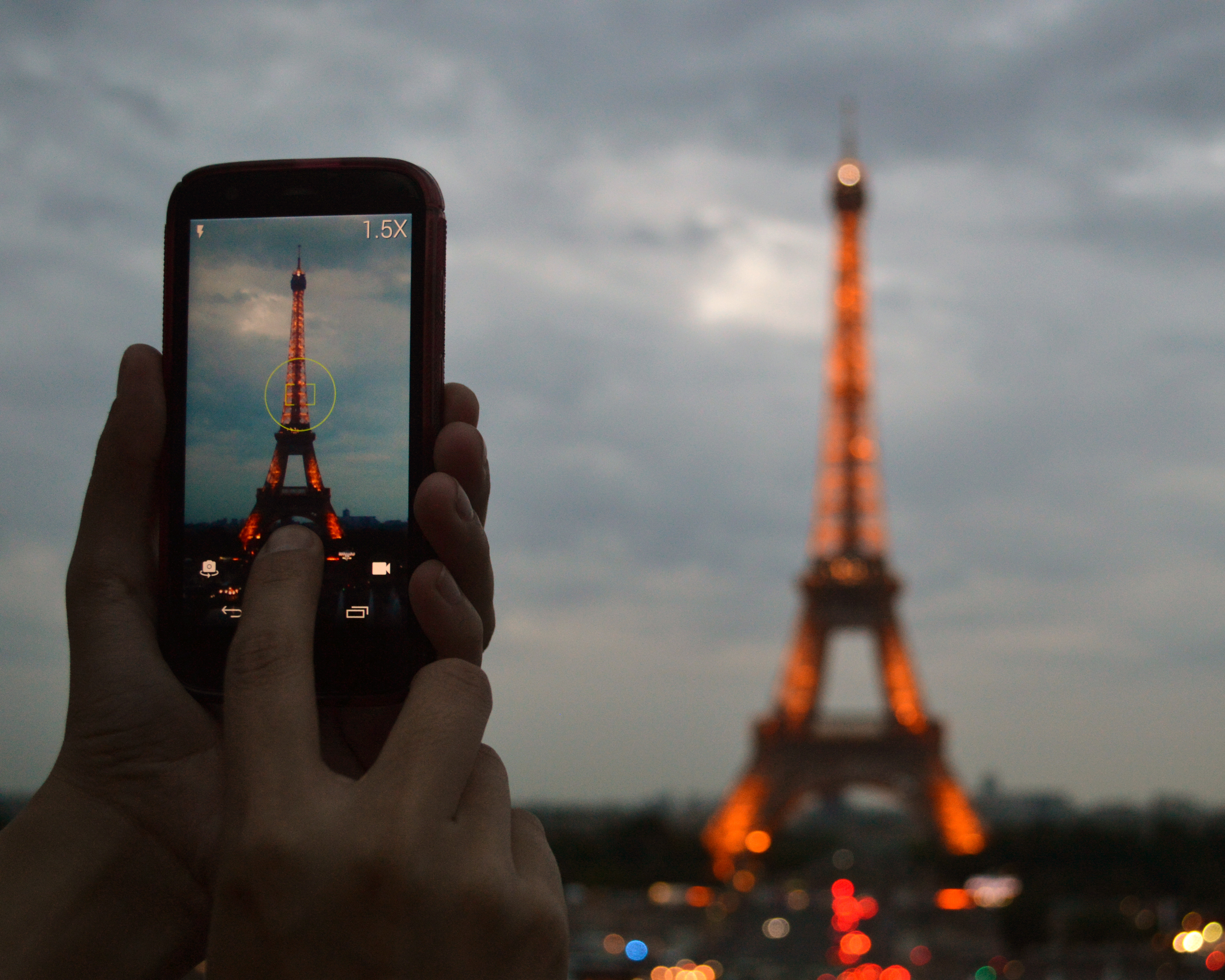 A man taking a photograph of the illuminated Eiffel Tower on his smartphone at dusk.